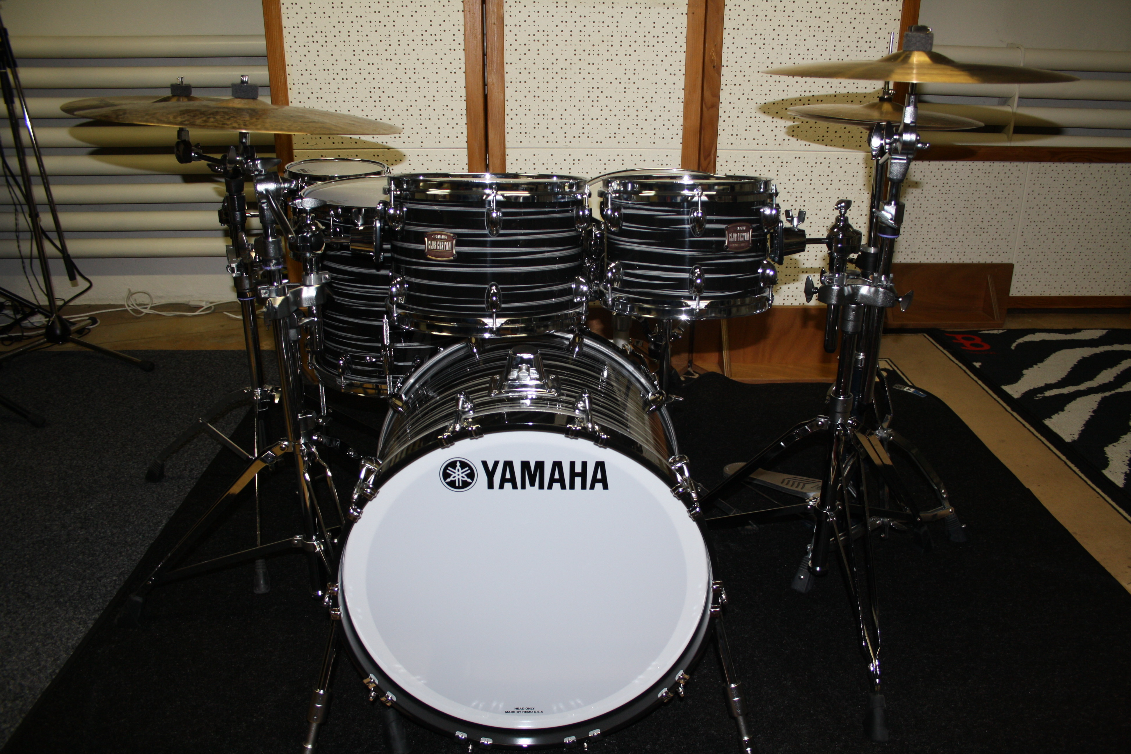 Yamaha Club Custom Drumset Swirl Black